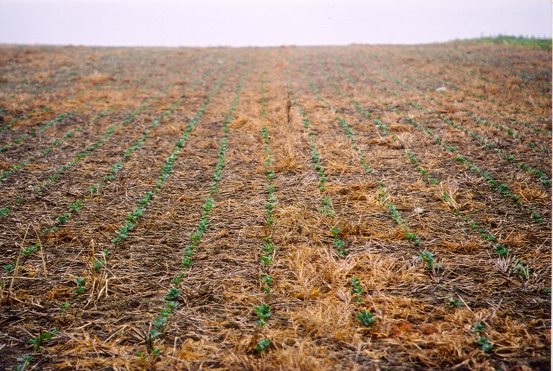 Field bean, no-till farming, canton of Bern, Switzerland